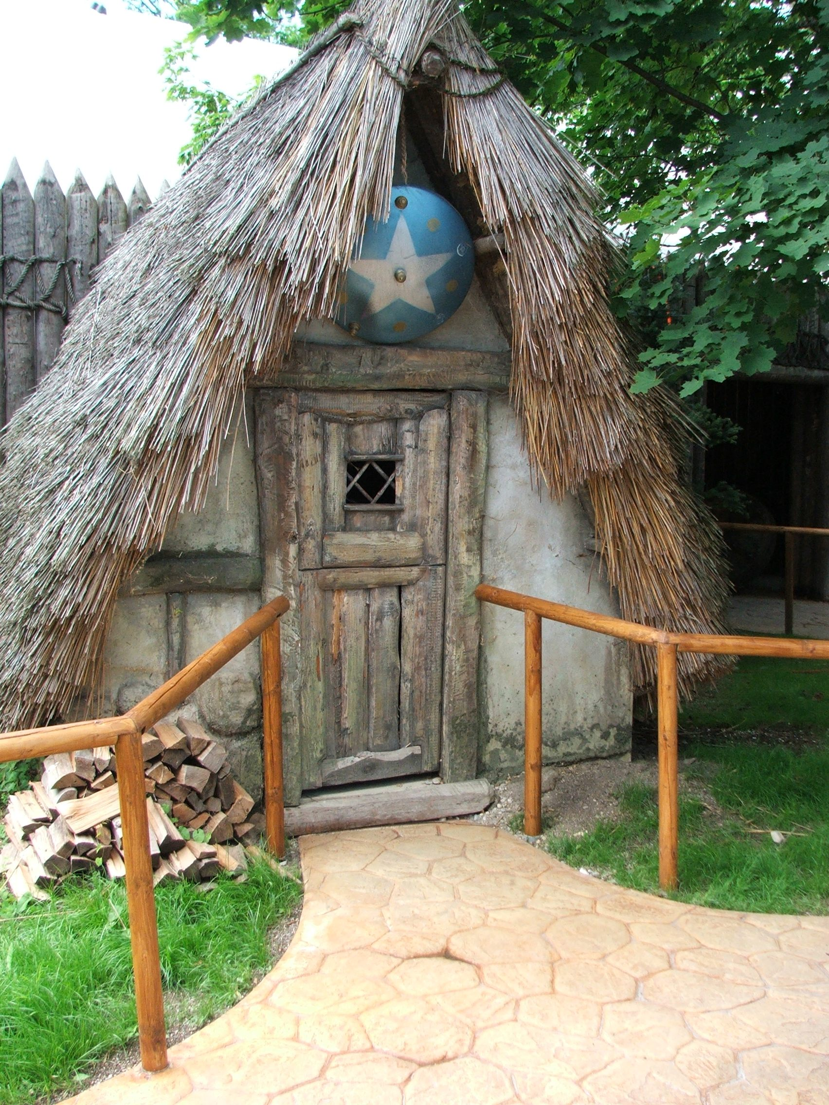 Bavaria Filmstadt, Munich, Bavaria, Germany.